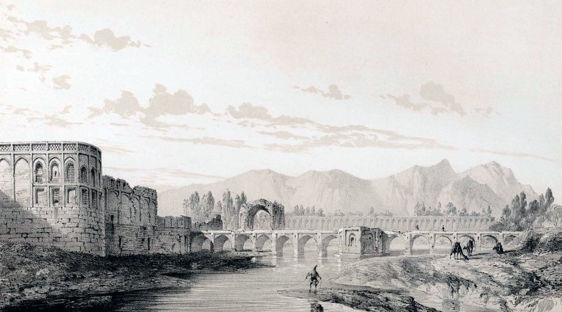 Edges Zendeh Rud [Palace Haft Dast & Palace Haft Dast], Isfahan